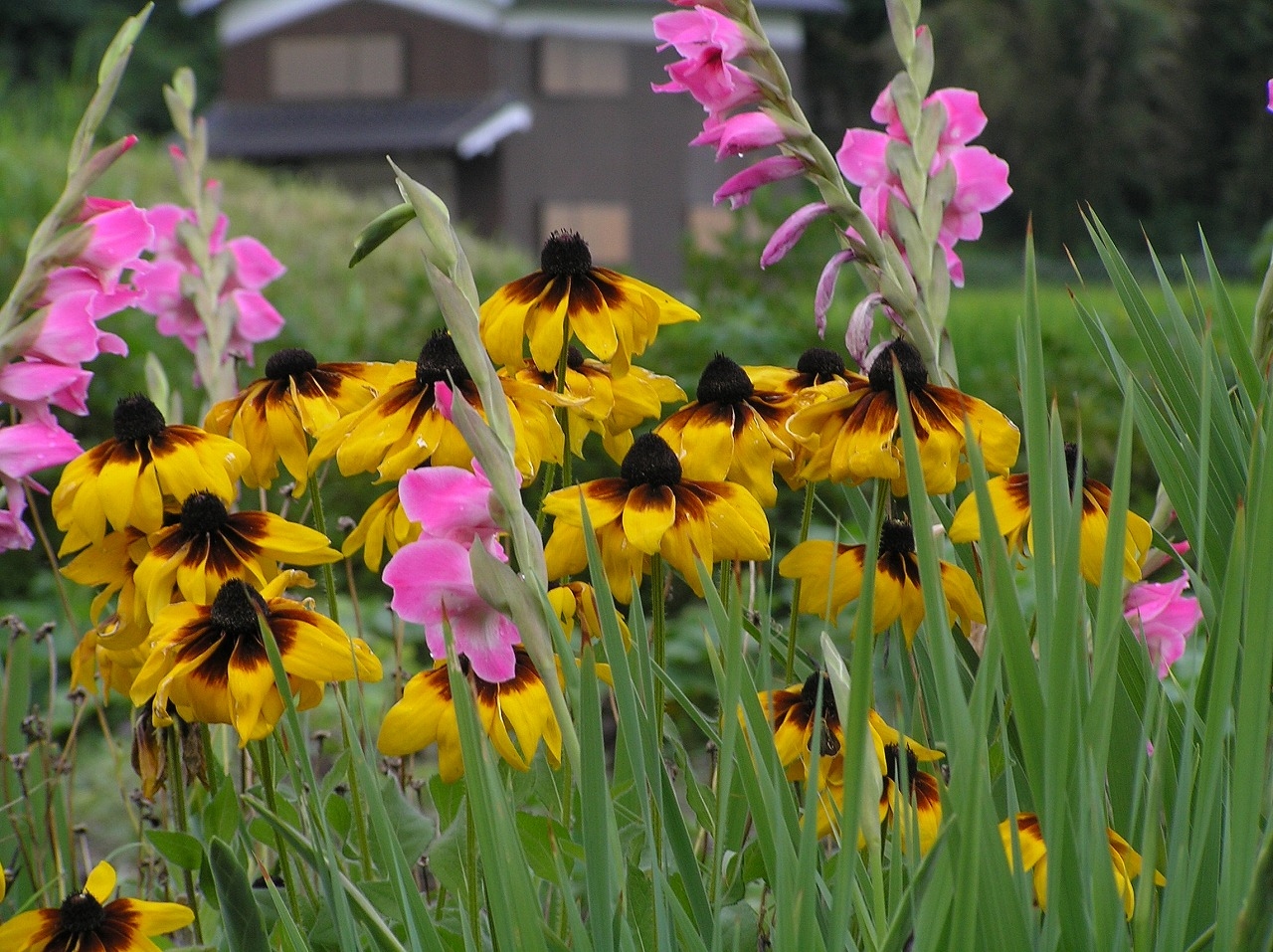 Rudbeckia